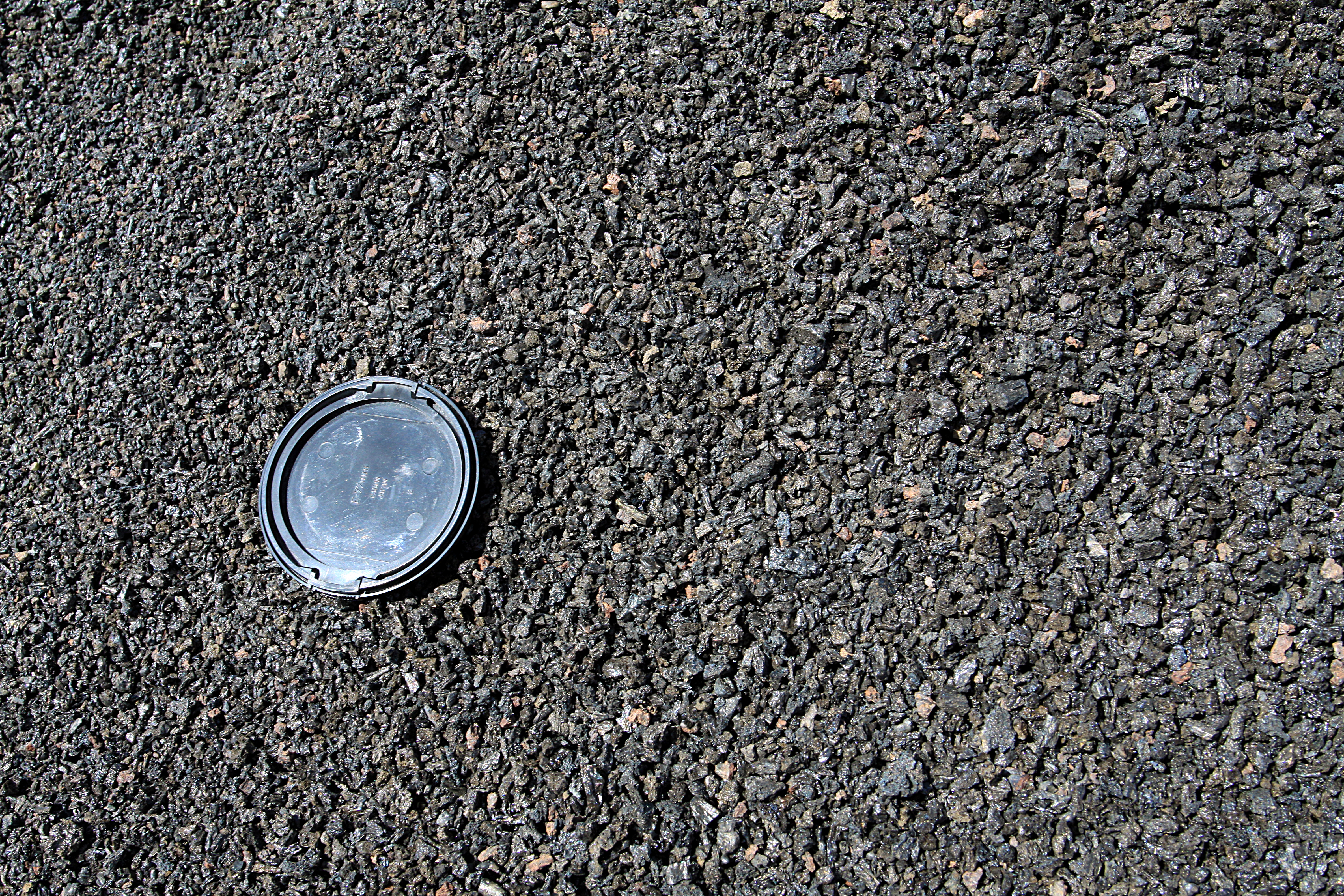 Detail of cinder particles forming part of scoria cone called "Caldera de los Cuervos" flank situated western from Masdache village on Lanzarote, The Canary Islands, Spain. See the 77mm lens' lid for scale - Google Maps - Google Earth